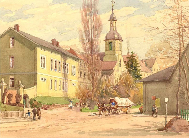 Old-Connewitz, Prinz-Eugen-Strasse (Watercolor from Walter Hinze)